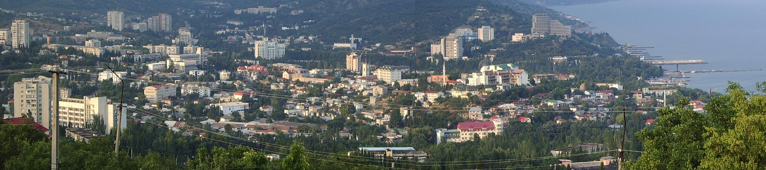 Data creation: Wednesday, August 30, 2006 Creation software: Optio S30 Ver 1.00 Color representation: sRGB Focal Length: 12 mm F-Number: F/3.9 Expouse time: 1/100 sec ISO Speed: ISO-50 Metering Mode: Pattern